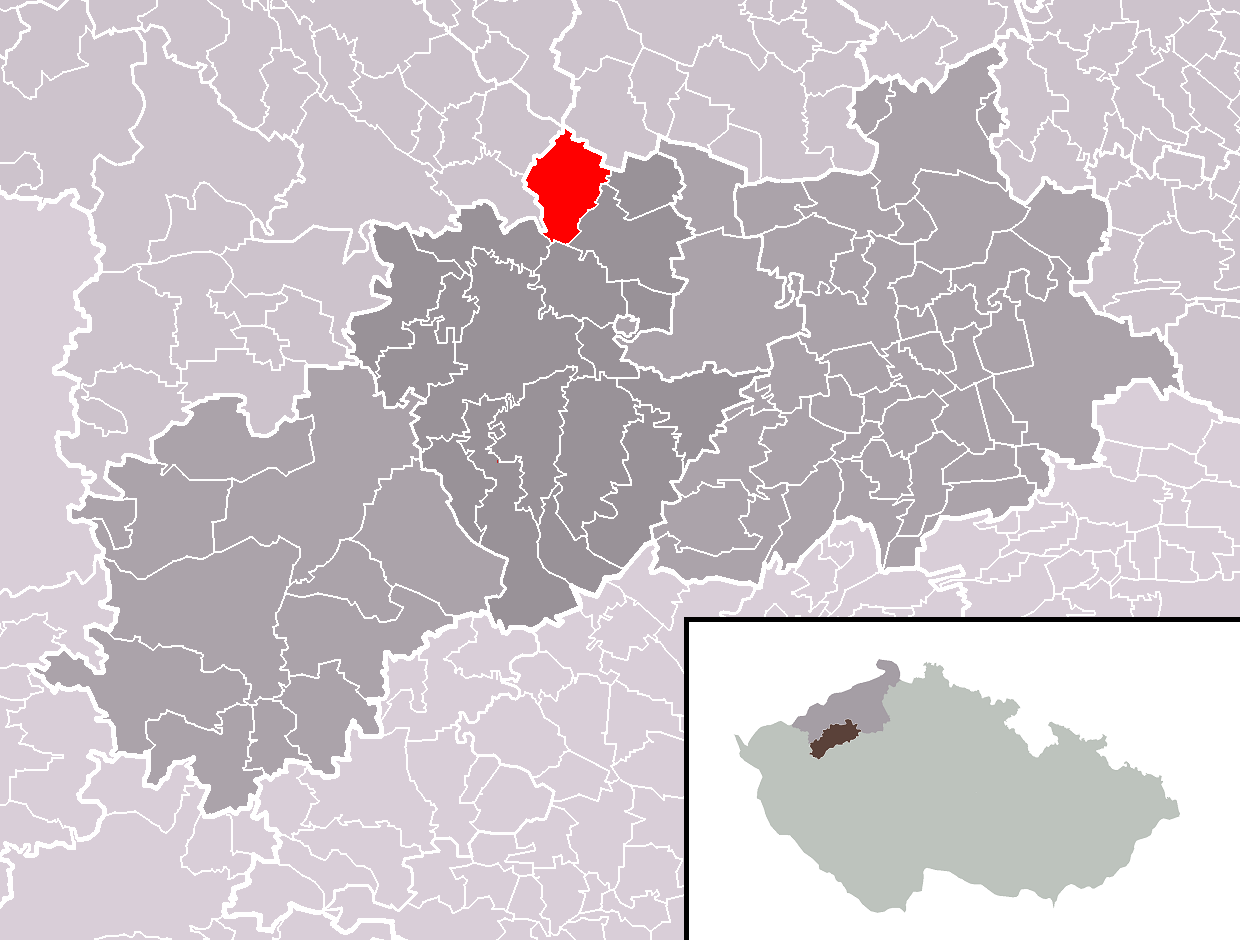 Location of Velemyšleves municipality within Louny District and administrative area of Žatec as a Municipality with Extended Competence.